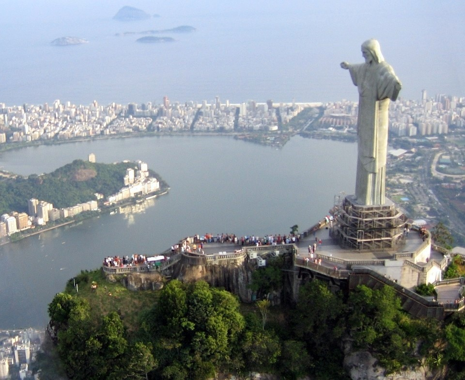 Cristo Redentor statue on top of Corcovado, a mountain towering over Rio de Janeiro. In the background the Ipanema and Leblon beaches separate the lagoon from the Atlantic Ocean.